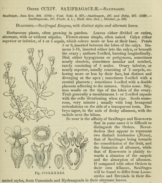 First page of Lindley's description of Saxifragaceae. 1. Flower 2. Perpendicular section 3. Cross section 4. Section fruit 5. Seed 6. Section seed